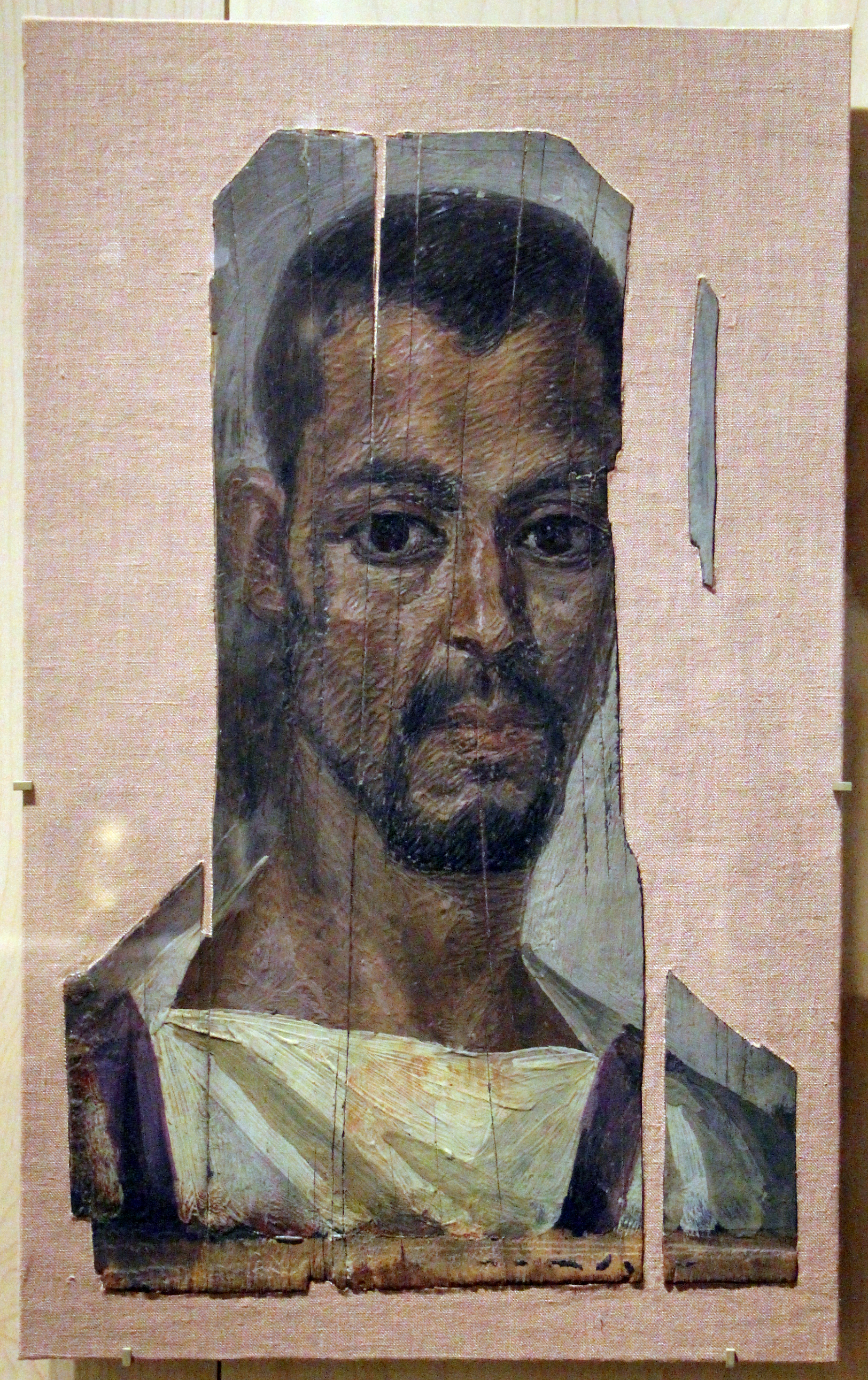 East Mediterranean in the Roman Empire antiquities in the Louvre